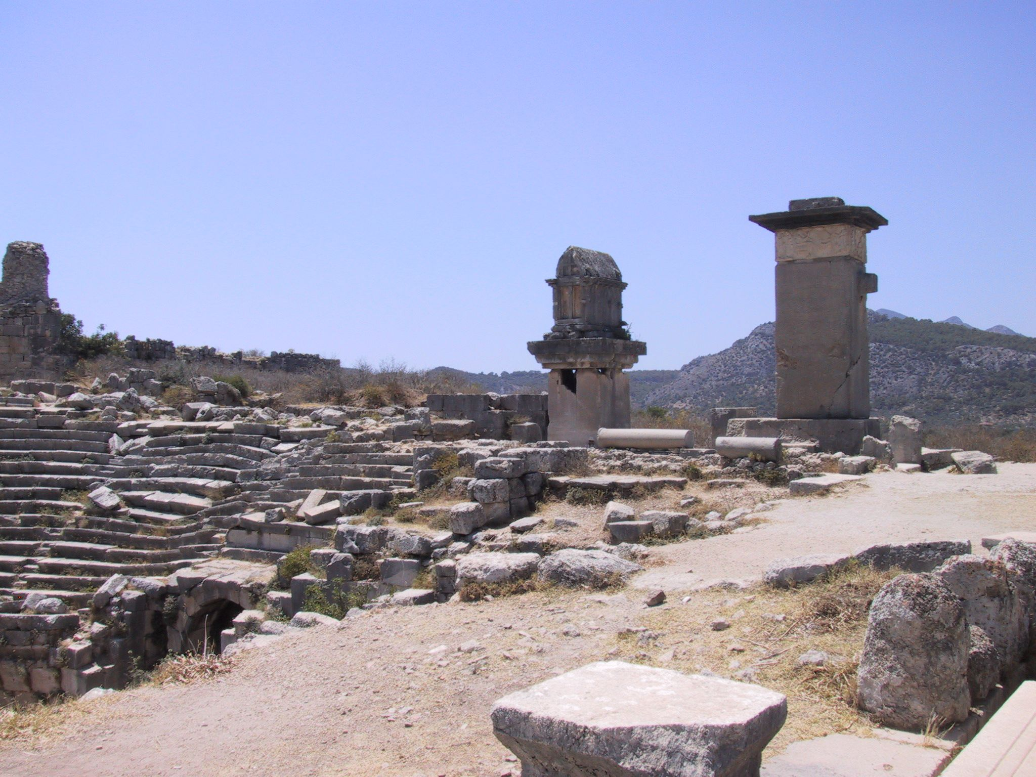 Lycian Tombs of Xanthos (Turkey)